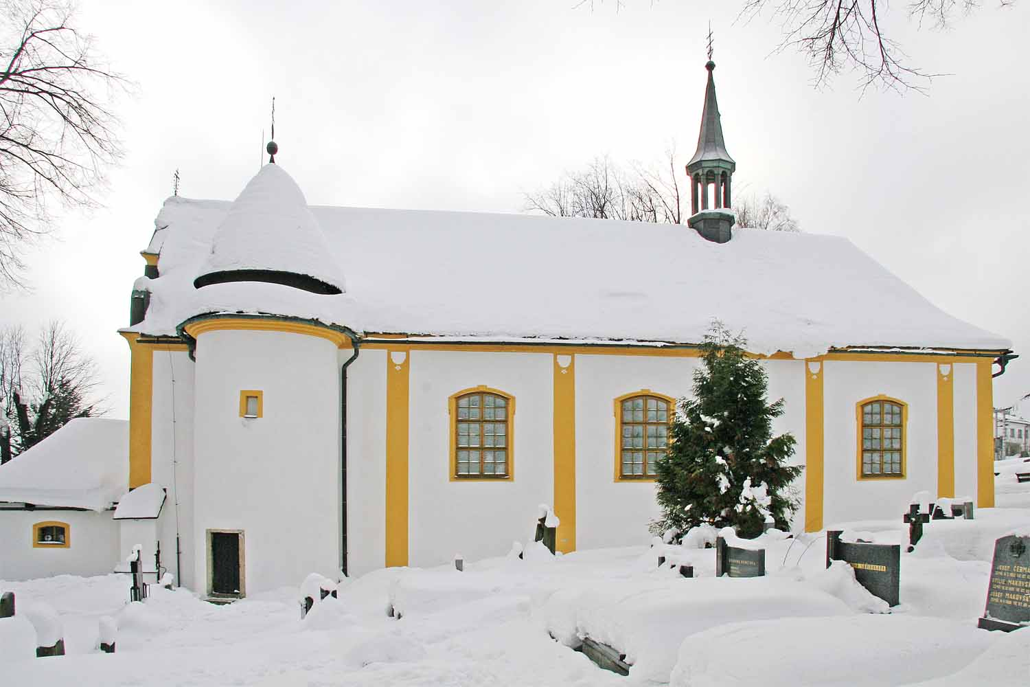 Baroque church of St John the Baptist in Svratka, Czech Republic.